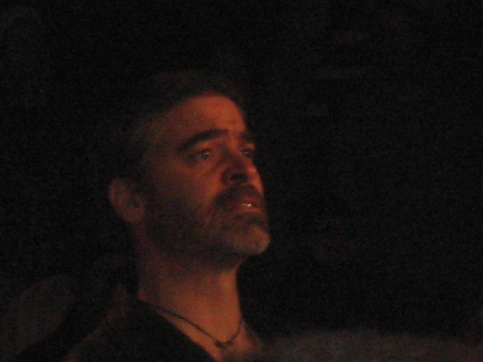 Vince Russo.... he needs to go away